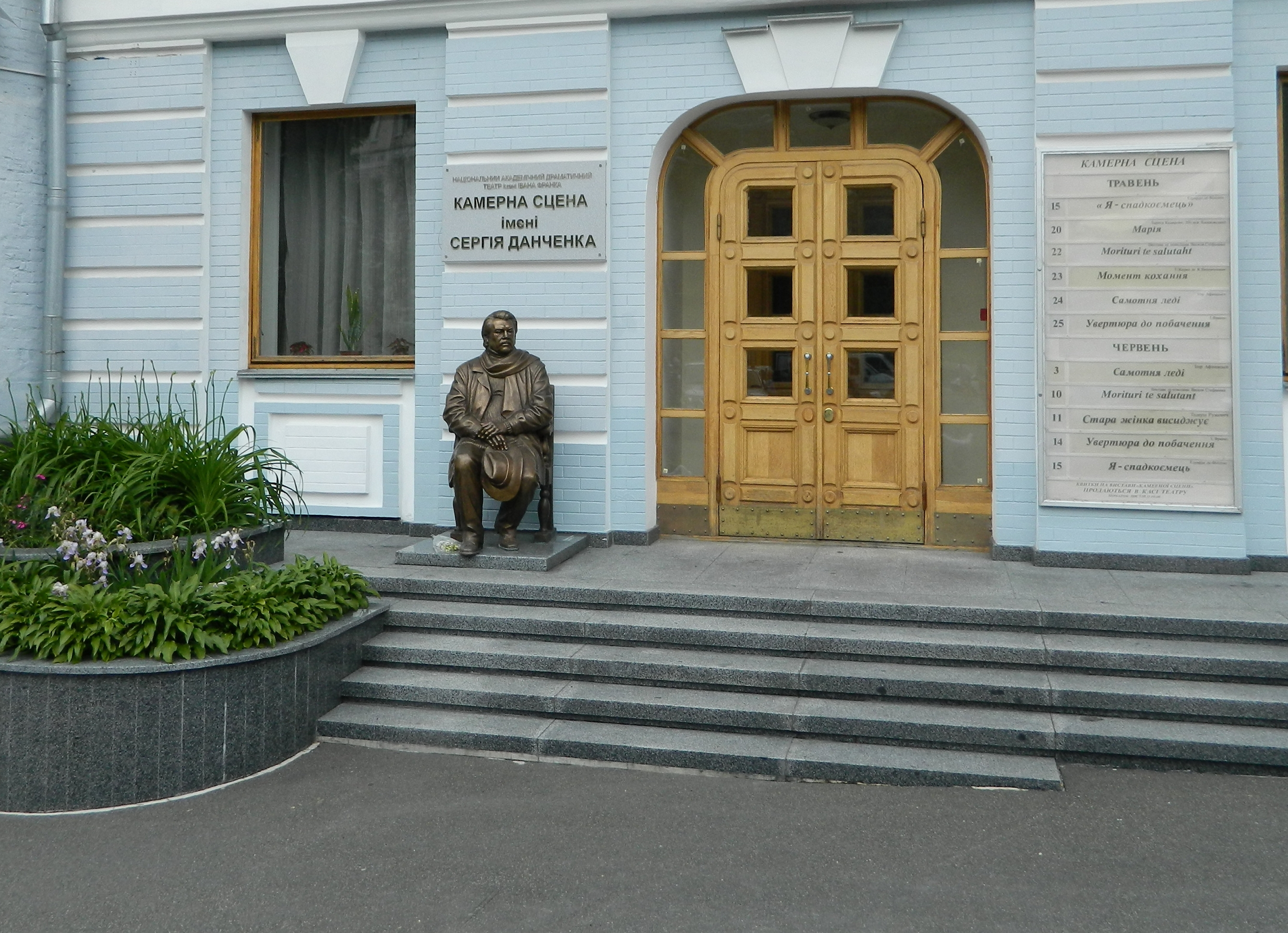 Kyiv. National Academic Drama Theatre named after Ivan Franko. Chamber Scene named Sergei Danchenko